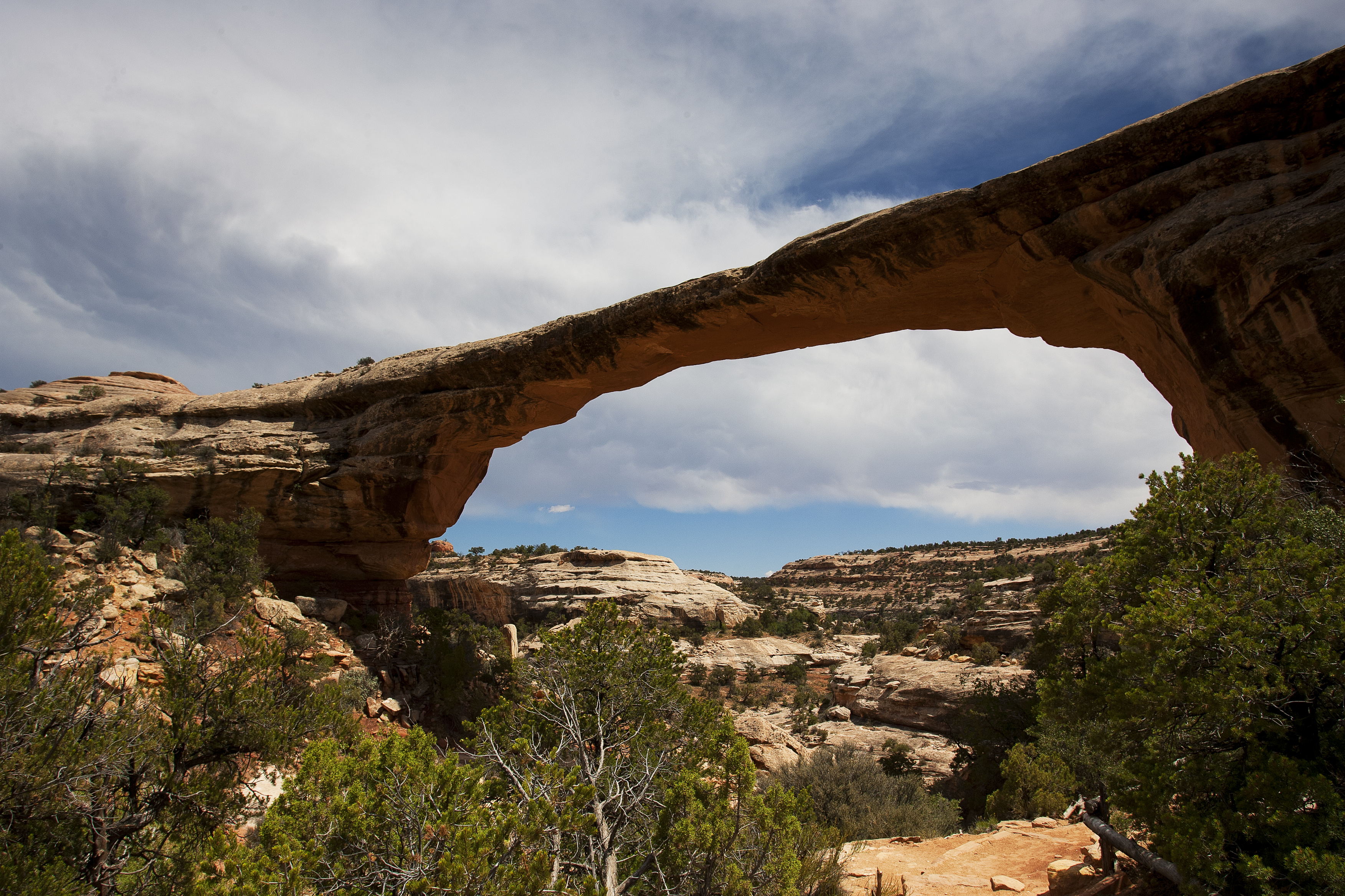 (NPS photo by Andrew Kuhn)